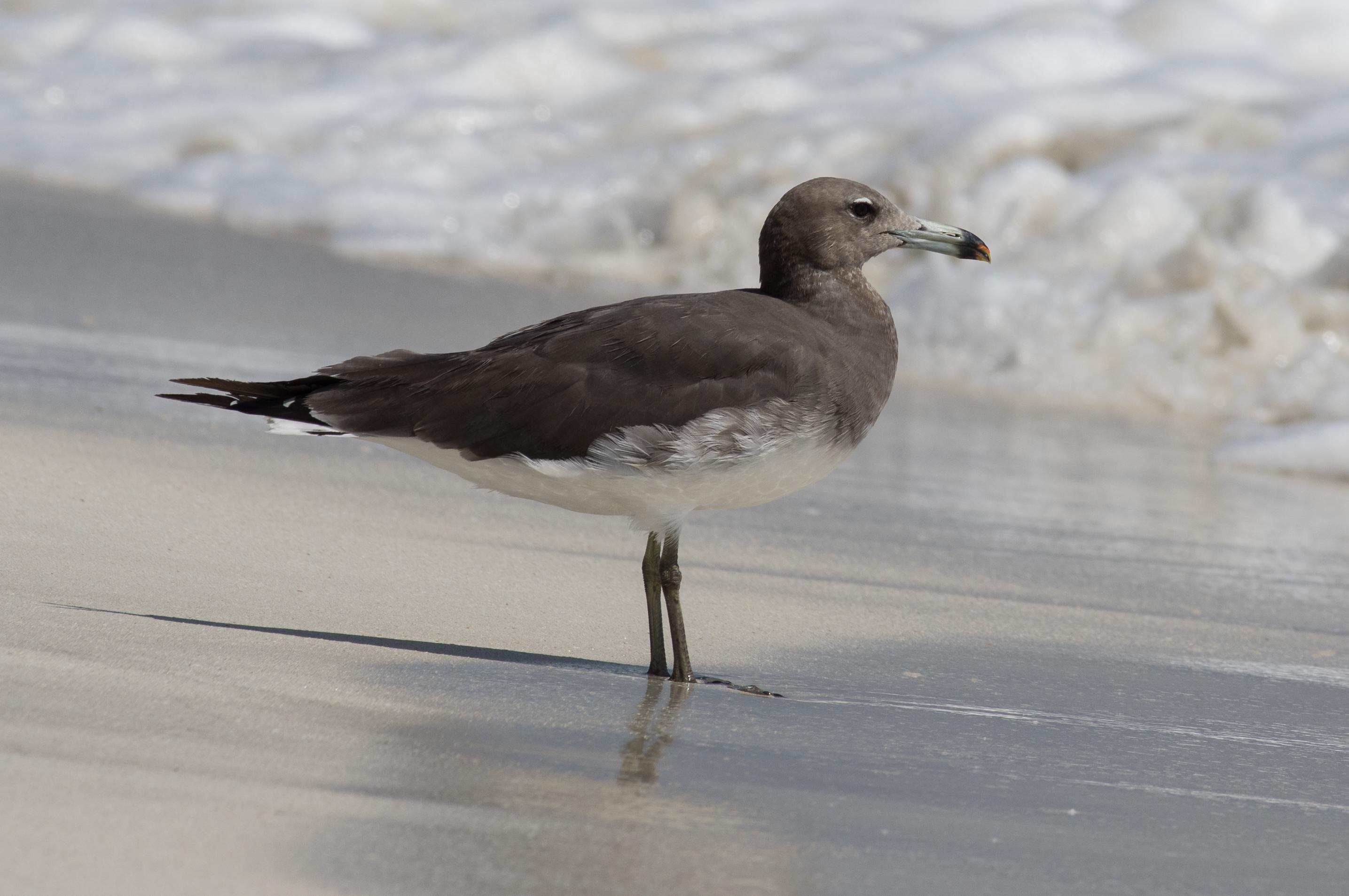 Sooty gull (Ichthyaetus hemprichii), Salalah, Oman